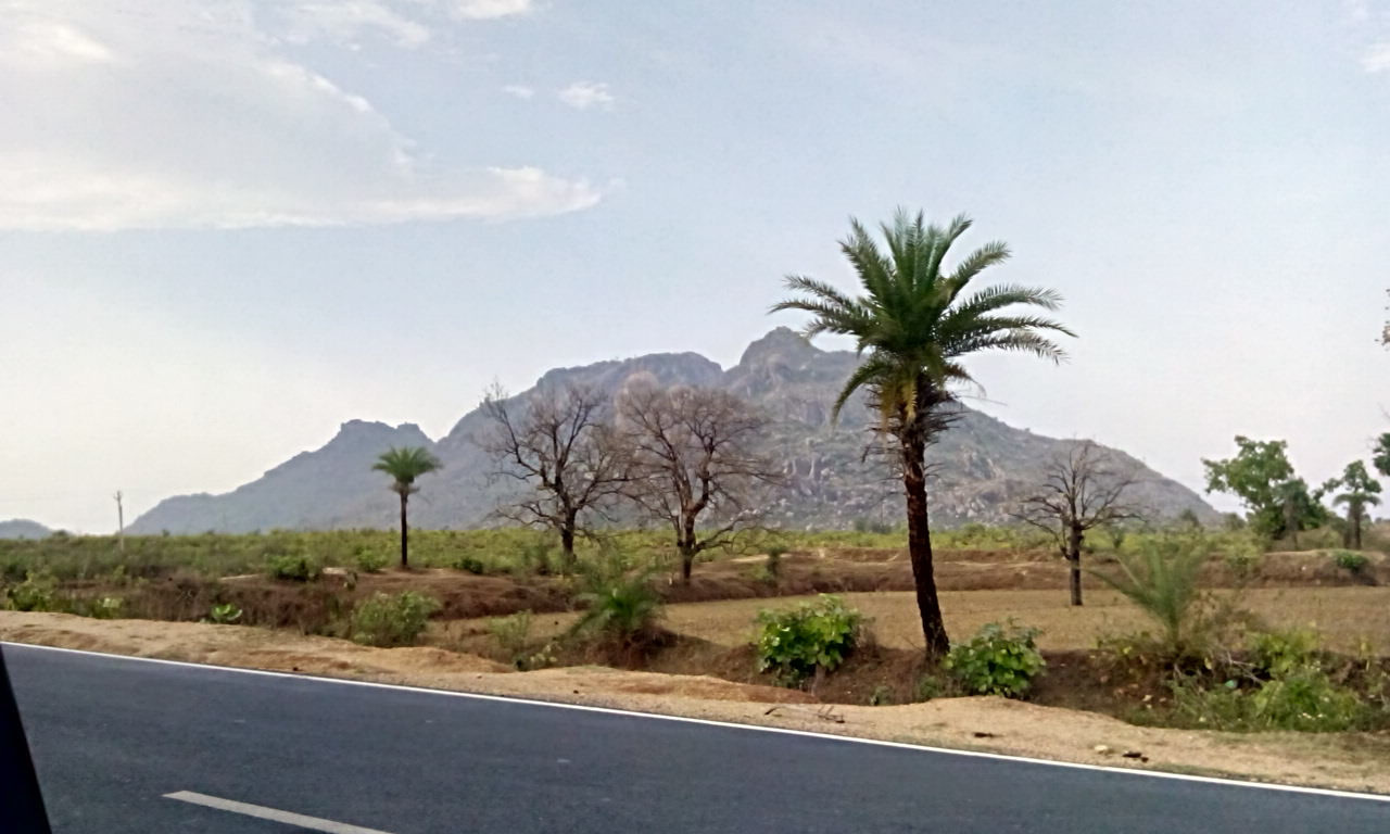 Deoghar near Trikut pahar